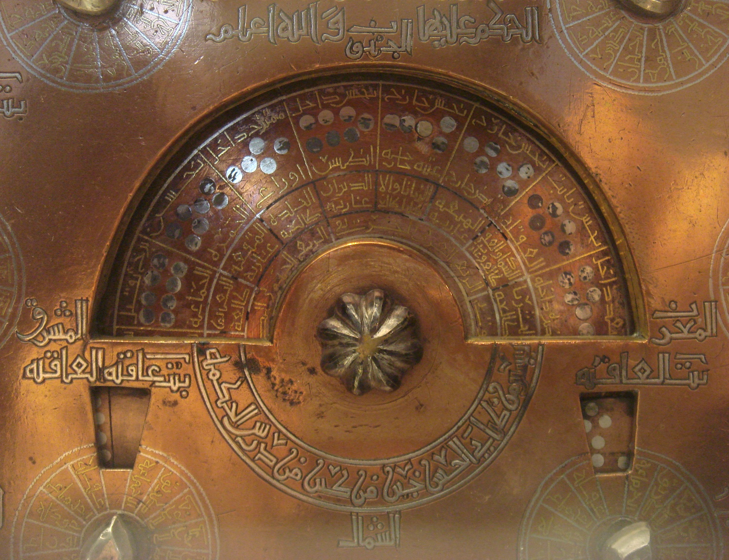 Geomantic_instrument_Egypt_or_Syria_1241_1242_CE_detail_1